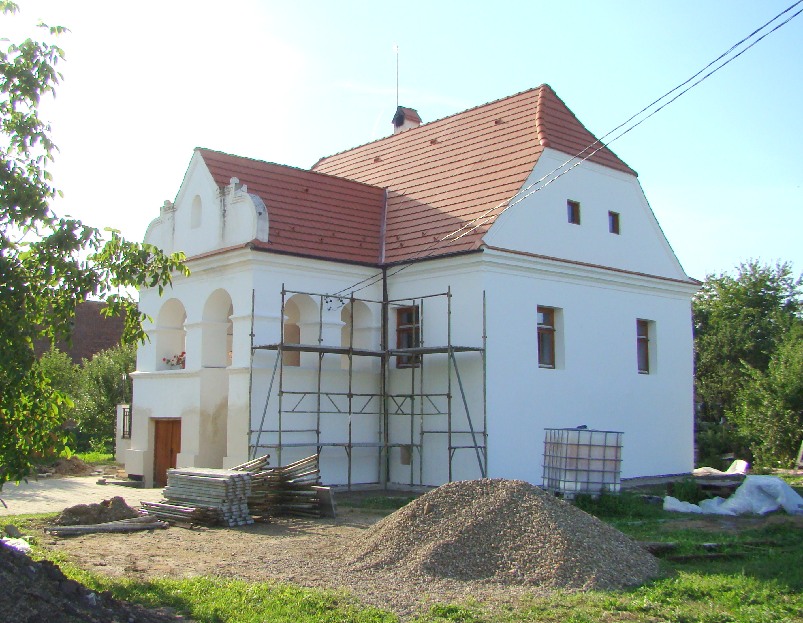 Salamon house in Reci, Covasna County, Romania